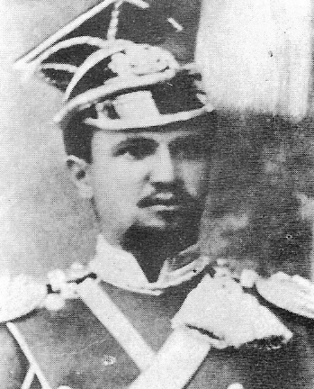 Benderev, Anastas Fyodorovich